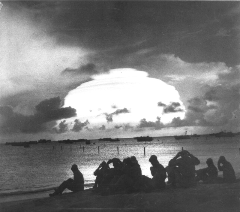 Operation Redwing, SEMINOLE Event - Operation Redwing, 6 June 1956 (SEMINOLE Event surface burst Enewetak).